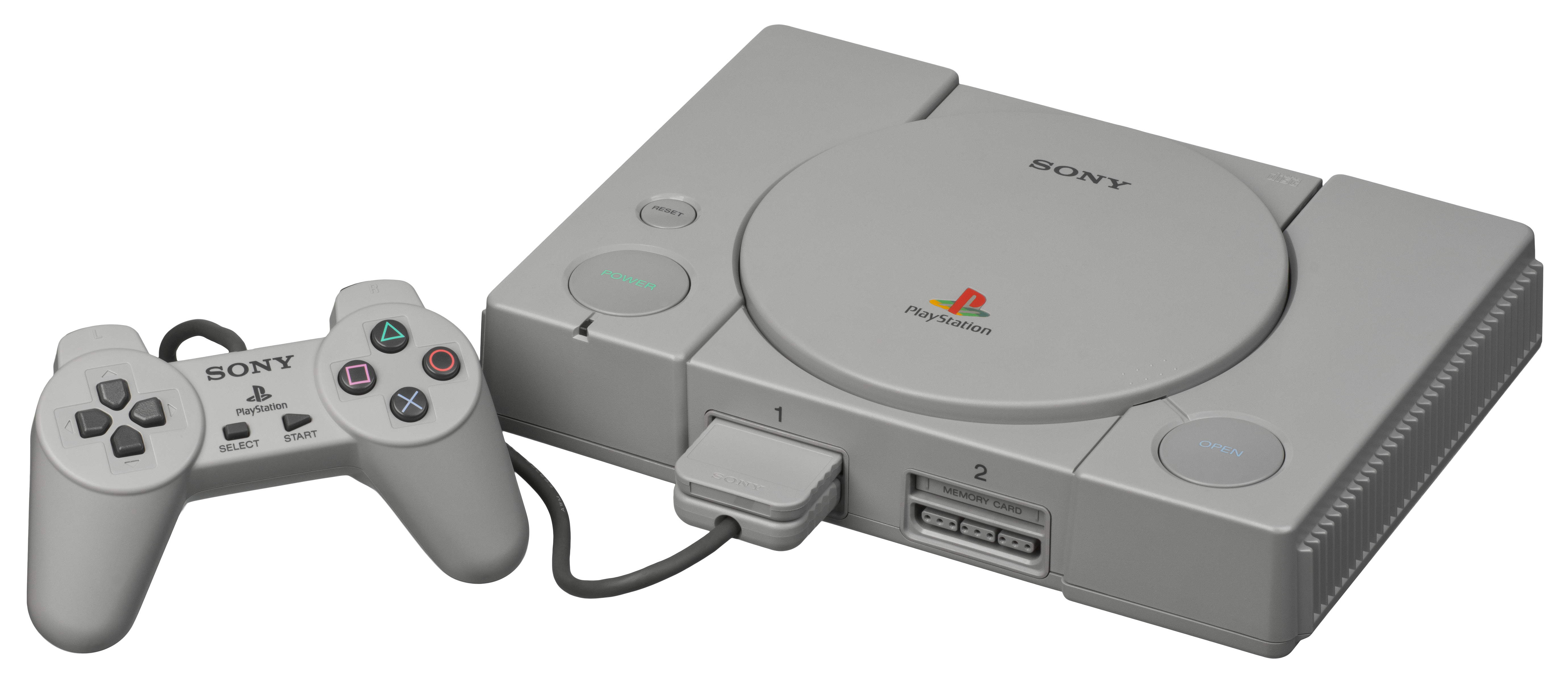 A Sony PlayStation video game console, shown with controller and memory card attached. This is a Japanese SCPH-1000, which was the very first model of PlayStation commercially released. It is similar to the American SCPH-1001 except it also features an S-Video out and comes bundled with the shown SCPH-1010 controller. The SCPH-1010 was a short-lived controller model and was only bundled with the SCPH-1000. It features shorter arms, a shorter cord and lacks a ferrite bead compared to the more common SCPH-1080.